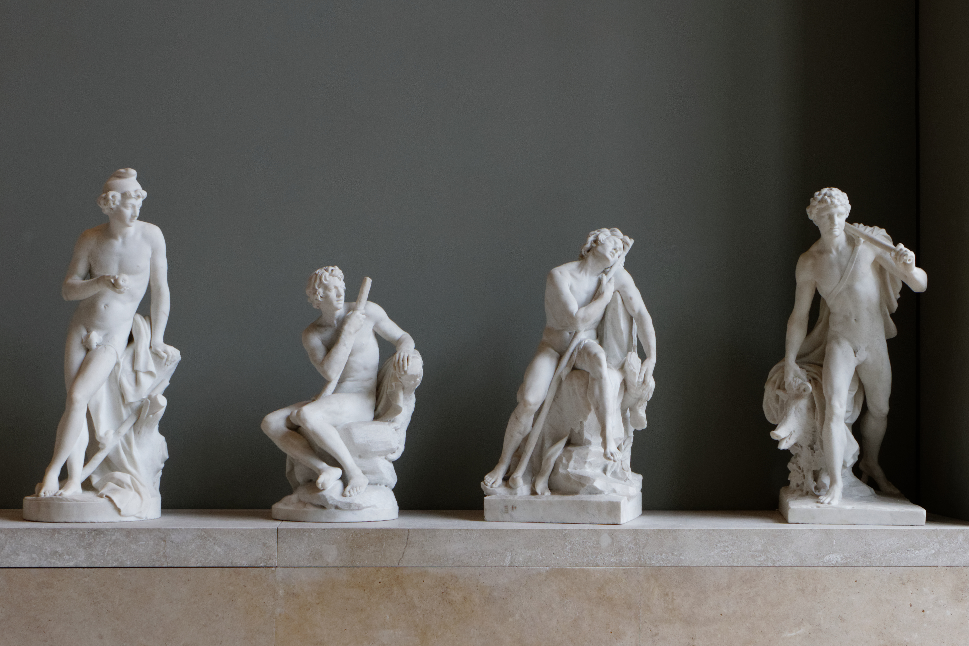 French sculptures in the Louvre - Room 25